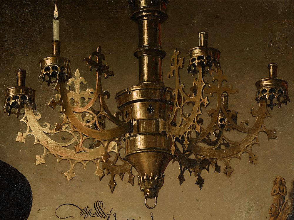 Crop of the painting The Arnolfini Portrait Jan van Eyck